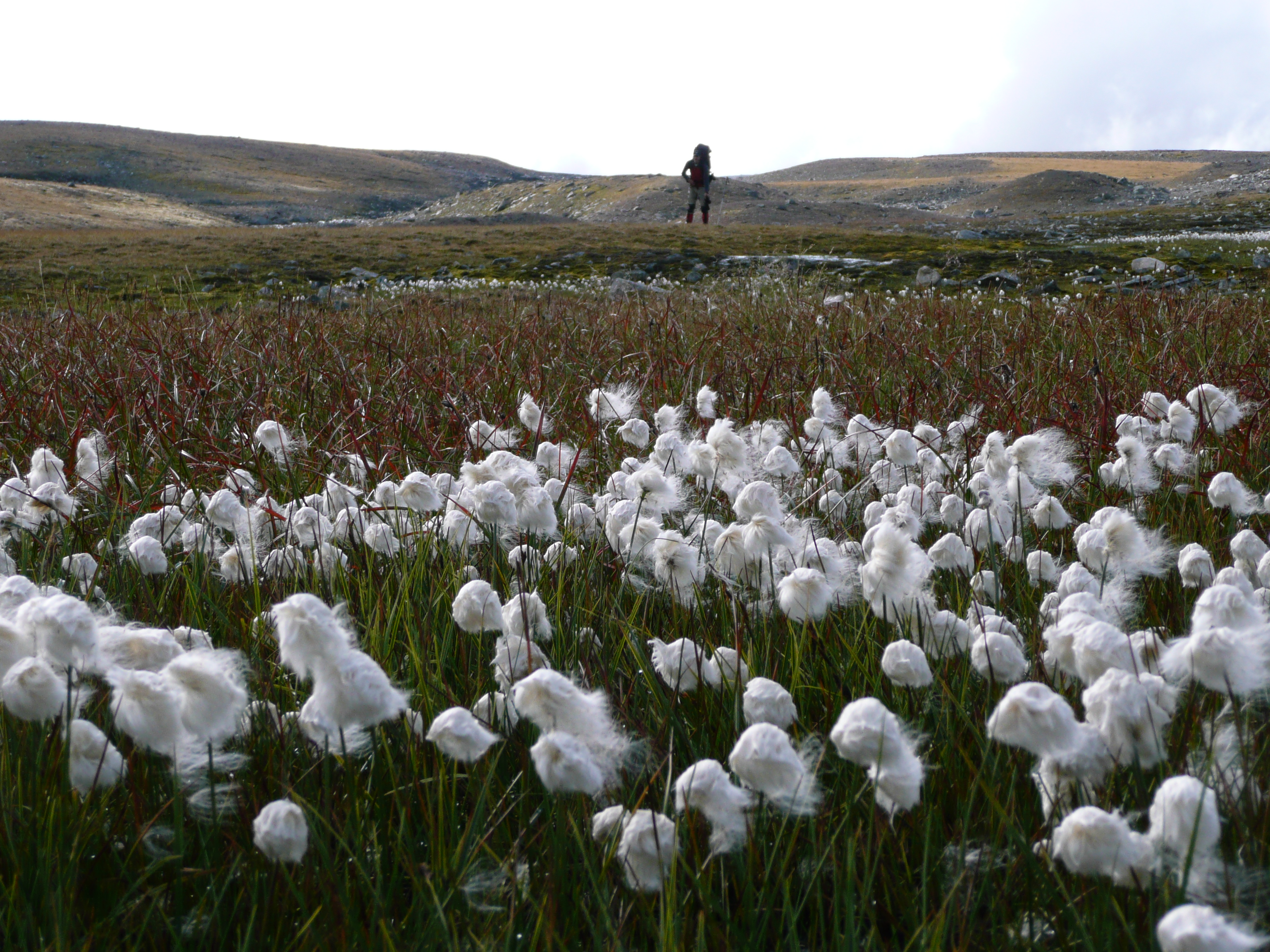 Field of cotton grass, Sarek national park